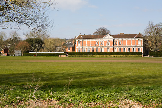 Part of Winchester College I don't know the name of this building nor its use.